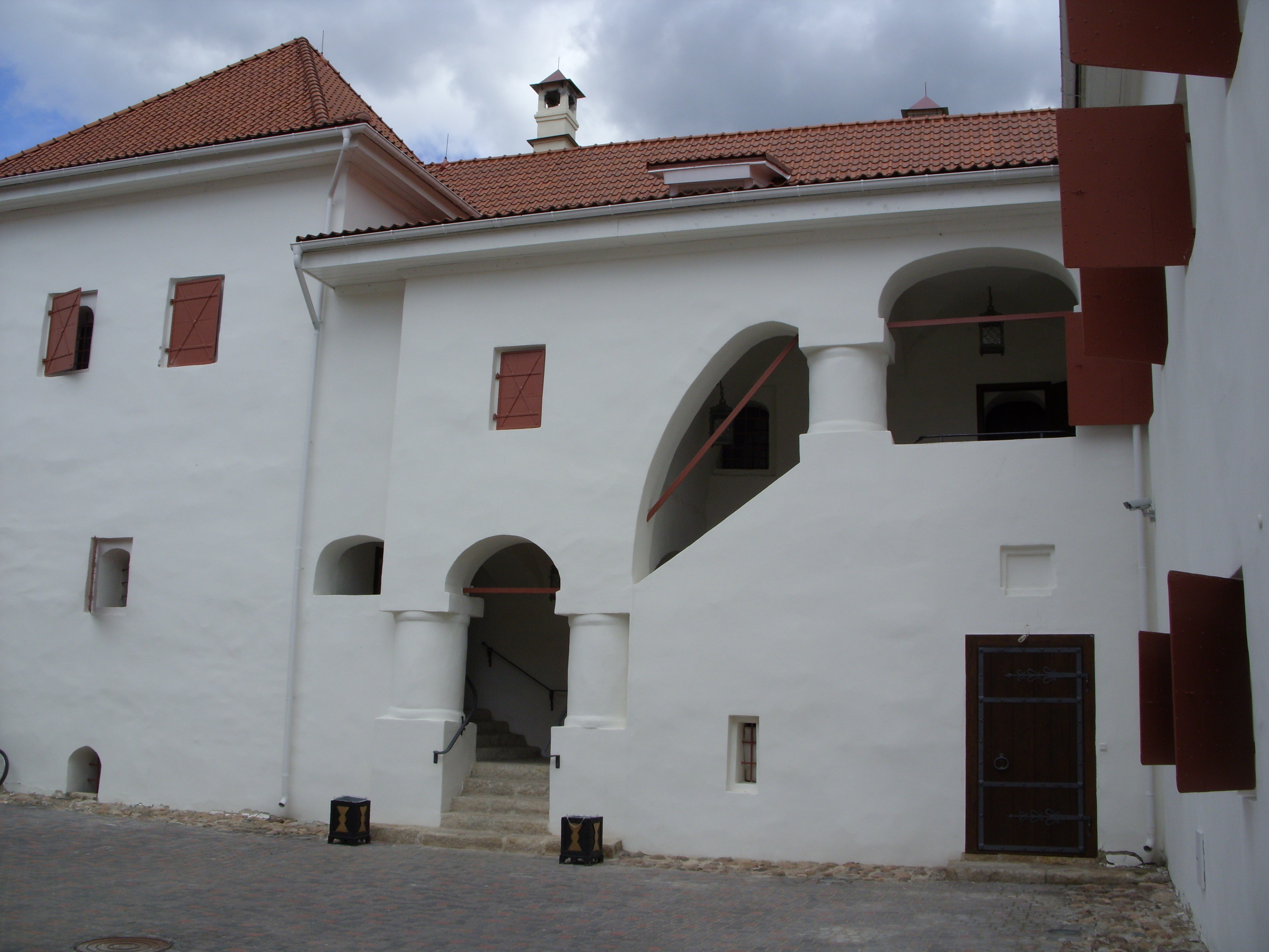 Dvor_Podznoeva_ijun2010-1